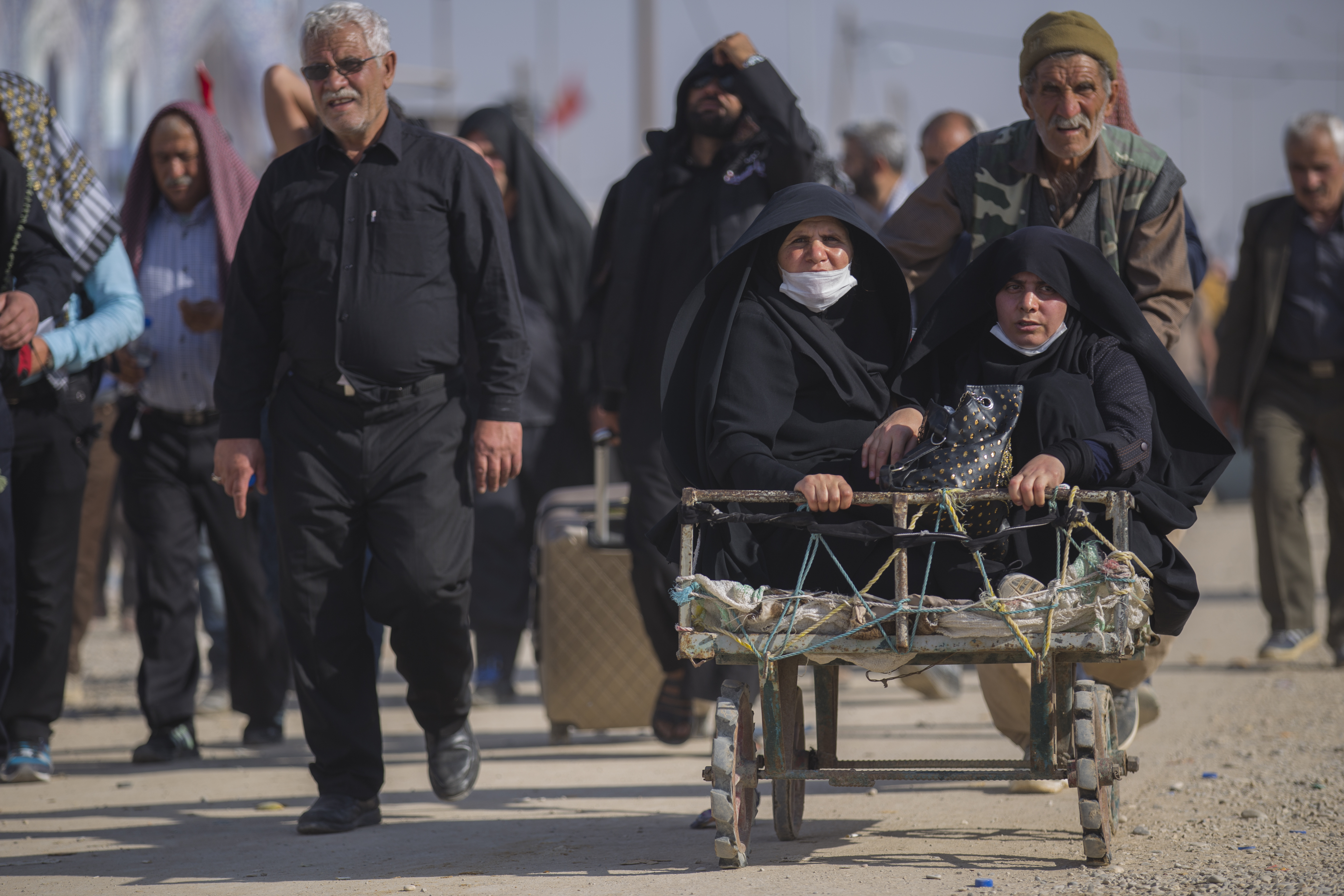 Arba'een , Chehlom or Qırxı, İmamın Qırxı is a Shia Muslim religious observance that occurs forty days after the Day of Ashura. Zazaki: Roca çewreısıne roca ke roca aşura ra çewres roci tepeya terefê Şıiyan firaz beno. Aşma Muheremi de roca desıne, Roca Eşura de kışiyayışê lacê Eliyi Usêni u 71 tereftarê xo yadkerdene merdumi arê benê u xetıra Usêni gani tepışenê.